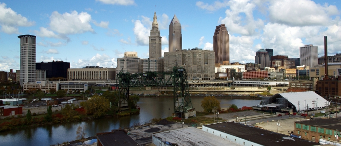 Cleveland Skyline from the Lorain-Carnegie Bridge.